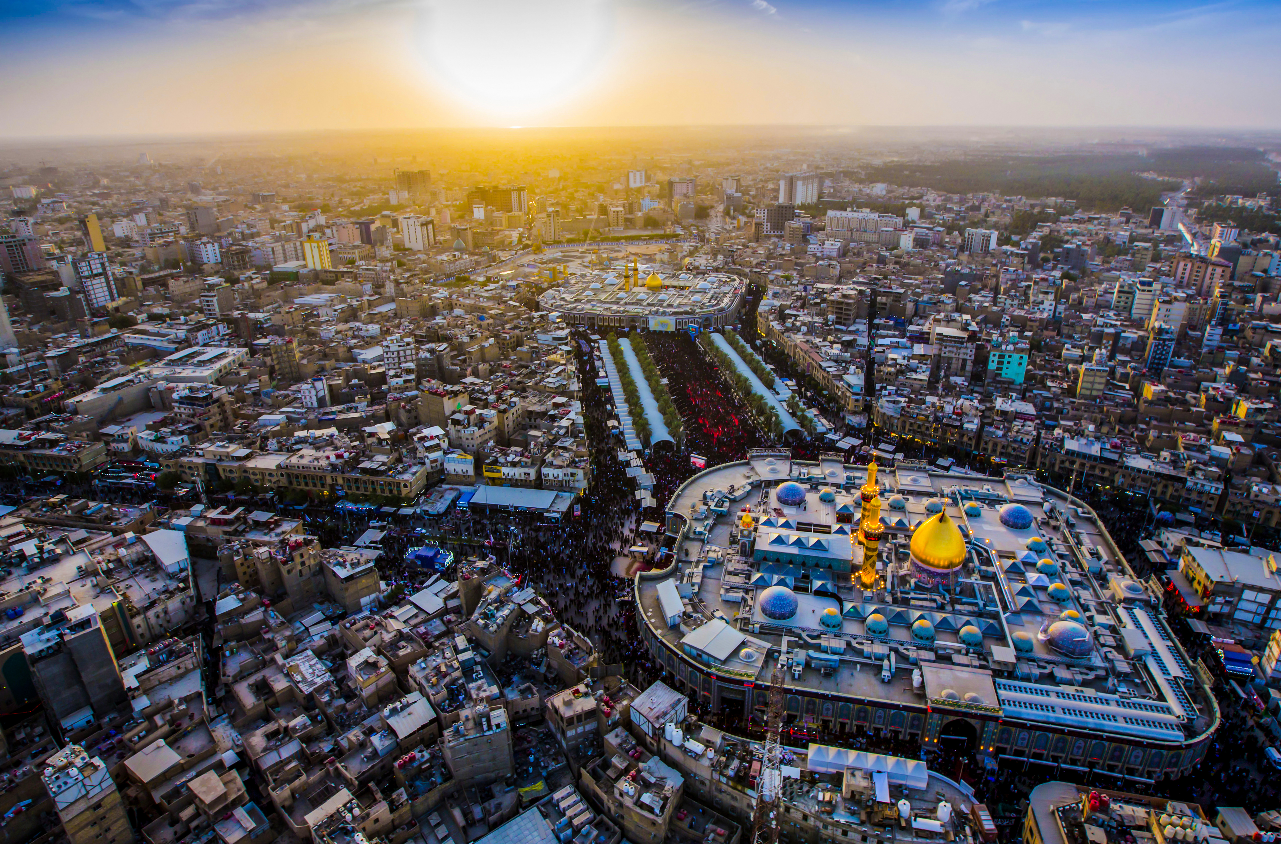 The Abbasid and Husseinia threshold and between them